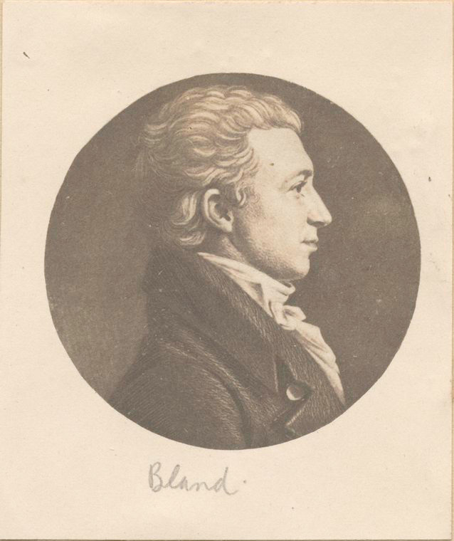 Theodorick Bland, US Representative from Virginia